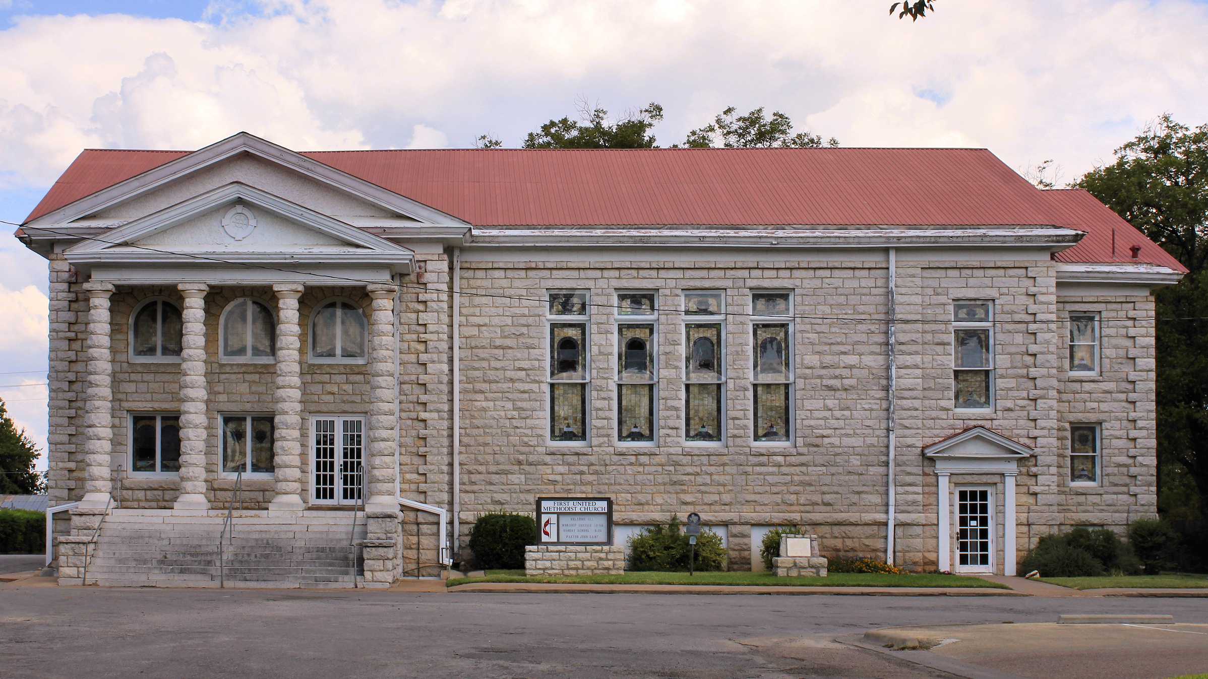 The First Methodist Church in San Saba Texas was built between 1914 and 1919. It was designated a Recorded Texas Historic Landmark in 1965.